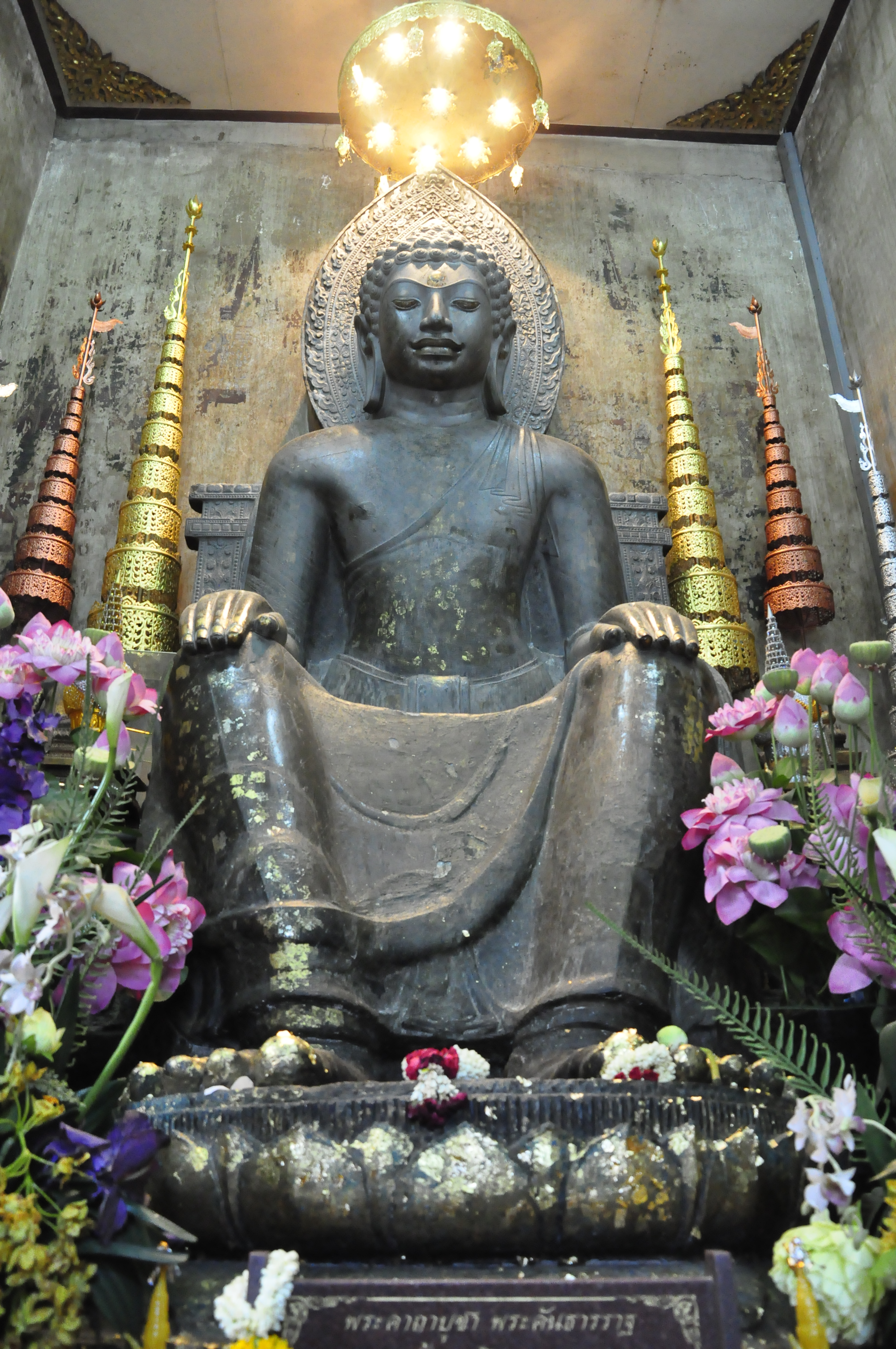 The Ayutthaya historical park covers the ruins of the old city of Ayutthaya, Thailand, which was founded by King Ramathibodi I in 1350 and was the capital of the country until its destruction by the Burmese army in 1767. In 1969 the Fine Arts Department began with renovations of the ruins, which became more serious after it was declared a historical park in 1976. The park was declared a UNESCO World heritage site in 1991. According to "Tourism Asia," [1] thirty-three monarchs including King Rama IV governed from Ayutthaya.